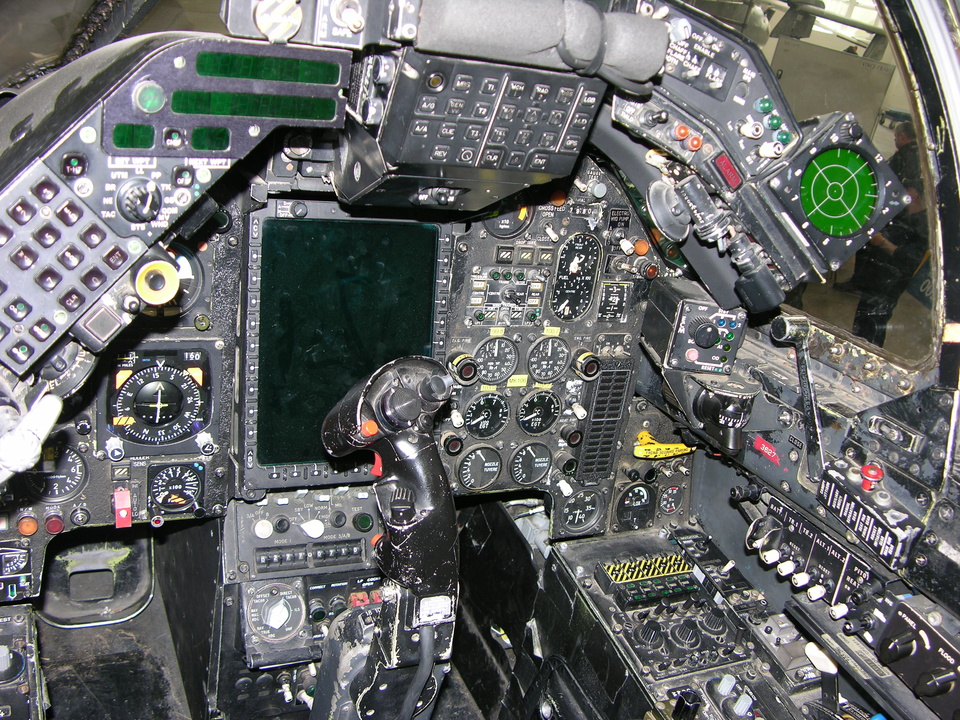 At DCAE Cosford